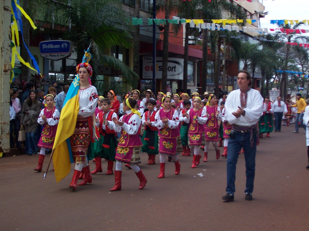 The Ukrainian colectivity, during the inaugural parade of XXVI Immigrant's National Festival, in Oberá, Misiones, Argentina.